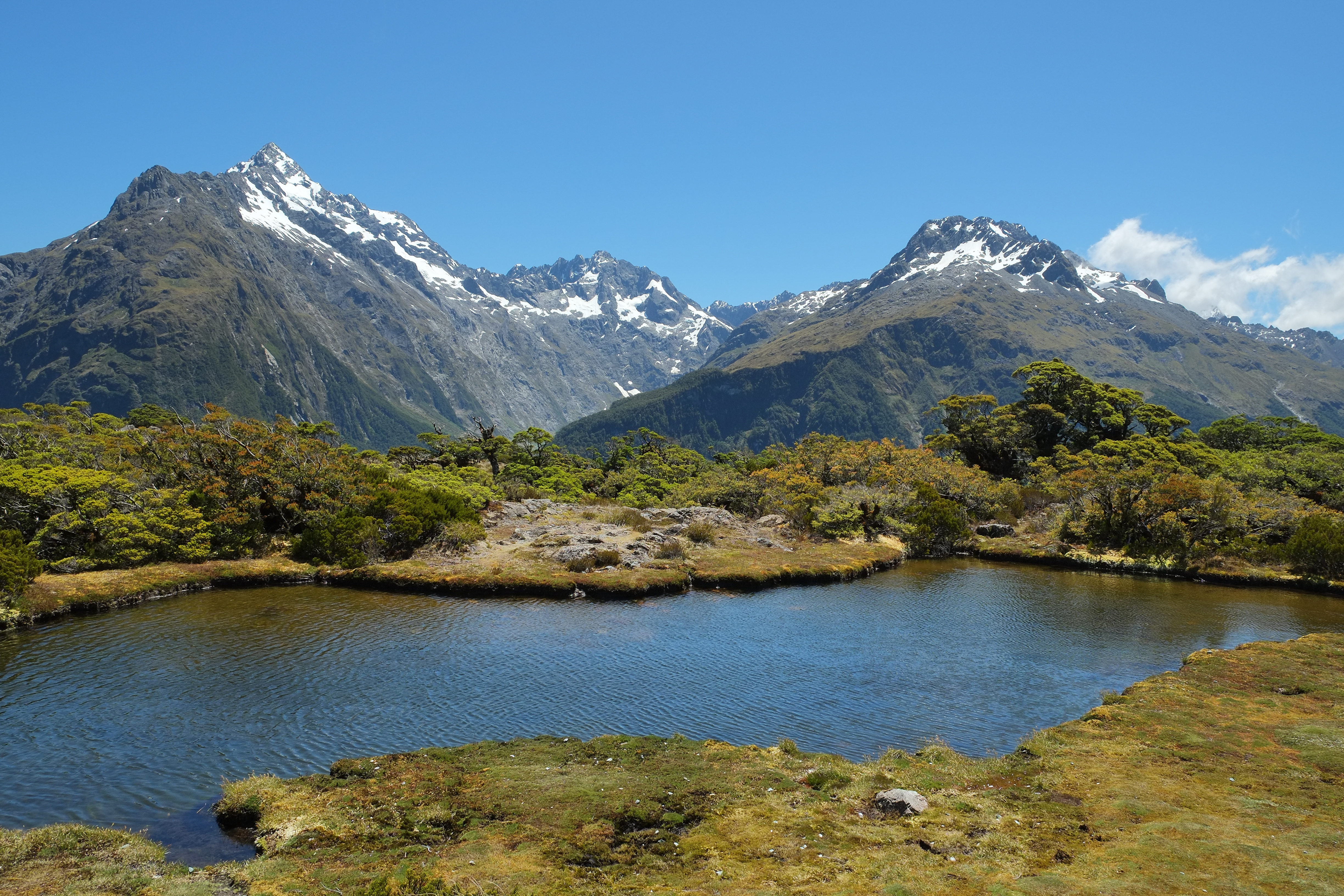 Tarn at Key Summit, a side track on the Routeburn Track